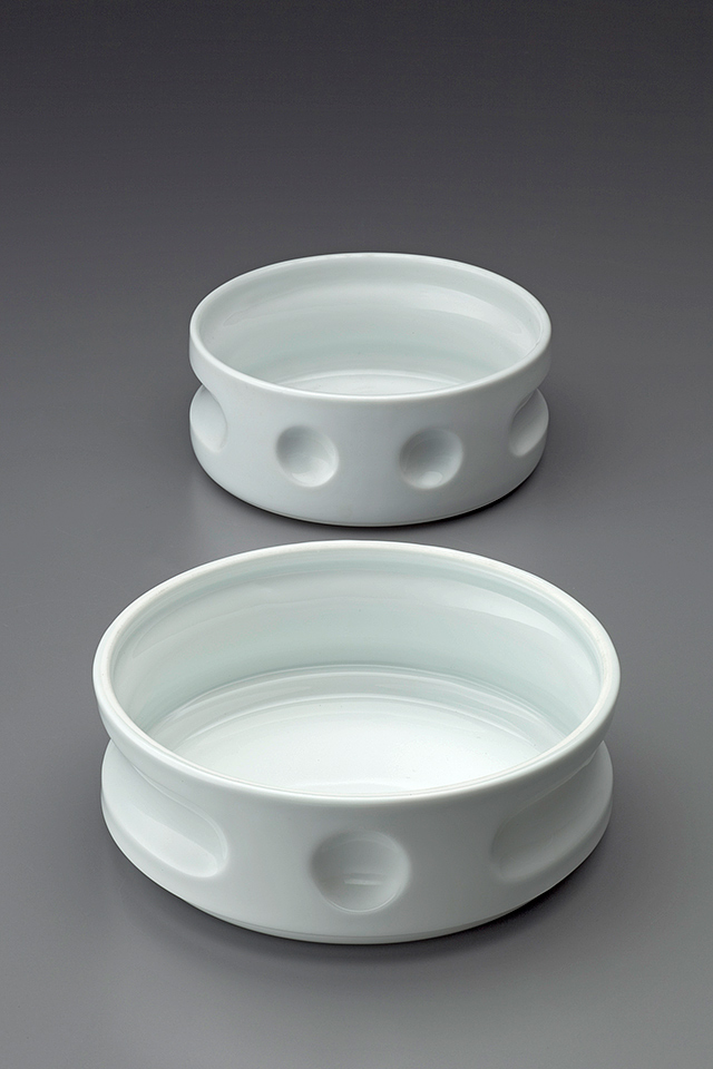 Fancy Bowl (front), Finger Bowl (back) (1974), Masahiro Mori (ceramic designer) designed